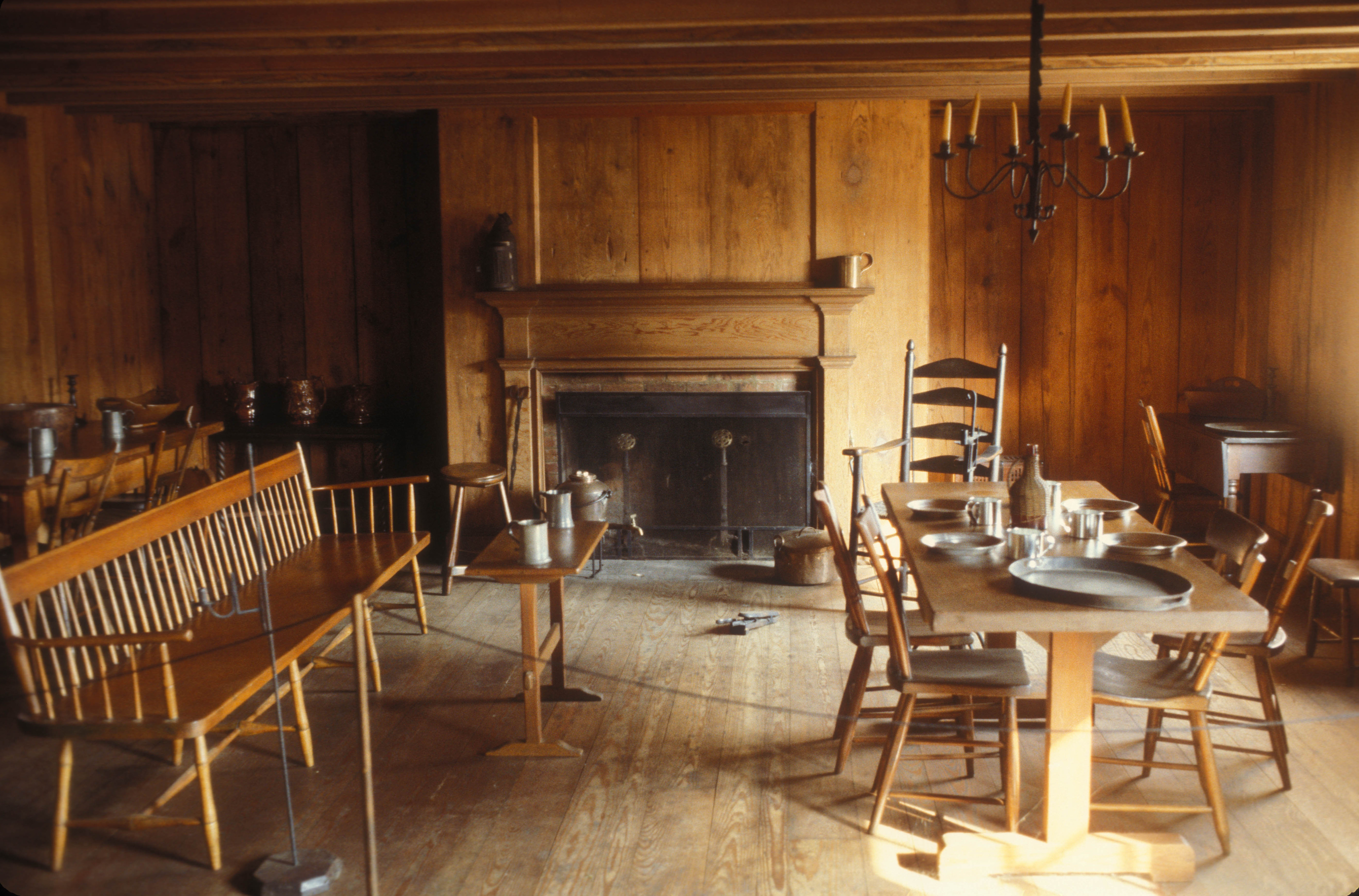 THIS IS THE GROG SHOP IN THE DOWNSTAIRS PORTION OF THE HINDERLITER HOUSE. Part of the Historic Arkansas Museum in Little Rock